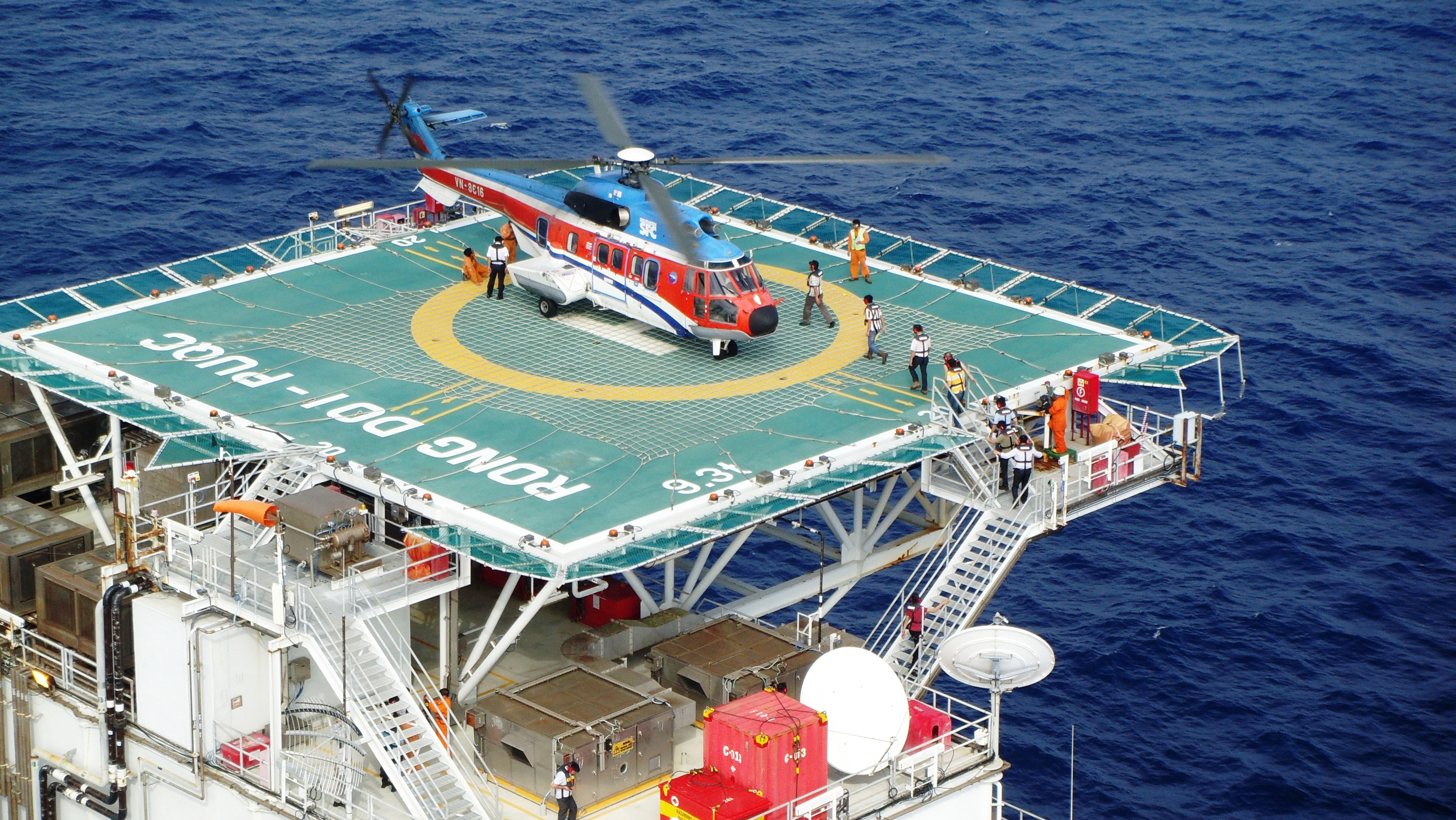 VN-8616 SSFC eurocopter AS332L2 Super Puma C/N 2672 on the Rong Doi platform in Vietnam